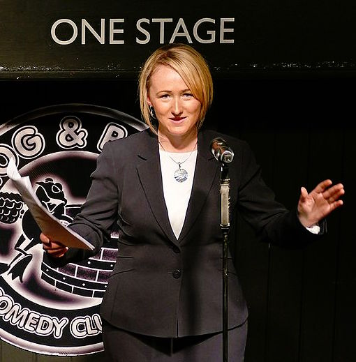 Rebecca Long-Bailey MP for Salford and Eccles, Shadow Secretary of State for Business, Energy and Industrial Strategy, Labour Party, UK. Speaking in Manchester, 24th June 2017.